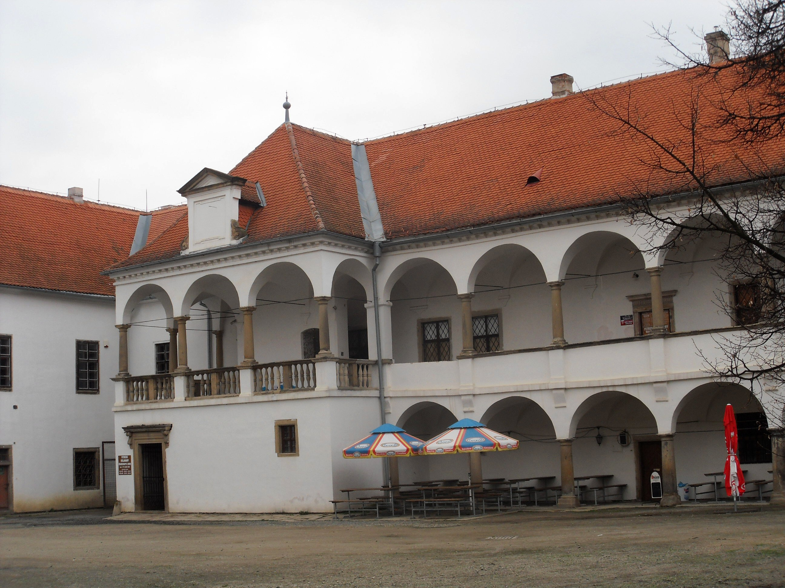 Castle in Oslavany, Brno-Country District, Czech Republic